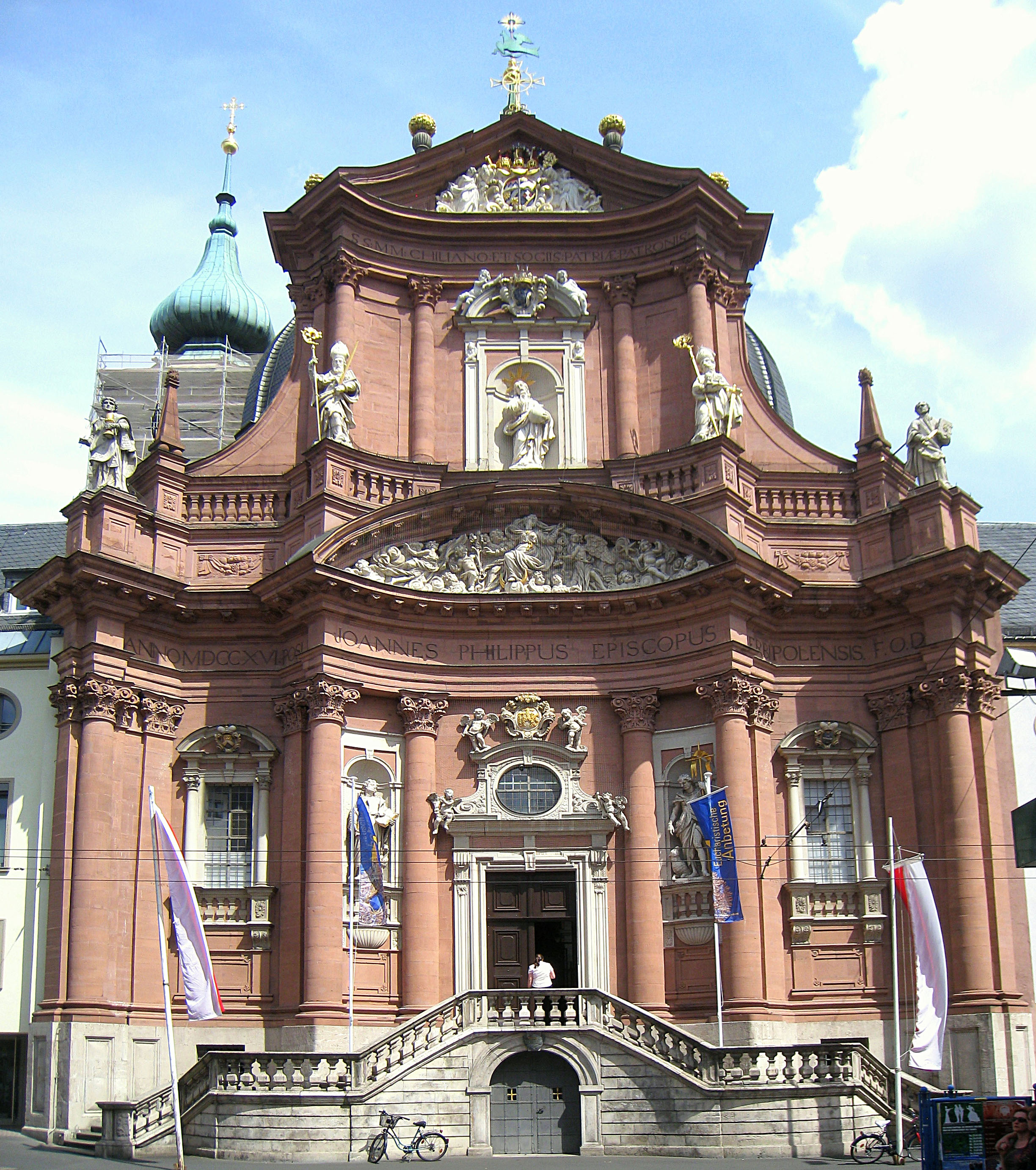 cleaned up version of Neumünster Würzburg - IMG 6690.JPG Summary Description Neumünster, Würzburg, Germany. Date26 July 2009SourceOwn workAuthorDaderotPermission (Reusing this file) Public domain. Licensing Neumünster, Würzburg, Germany.